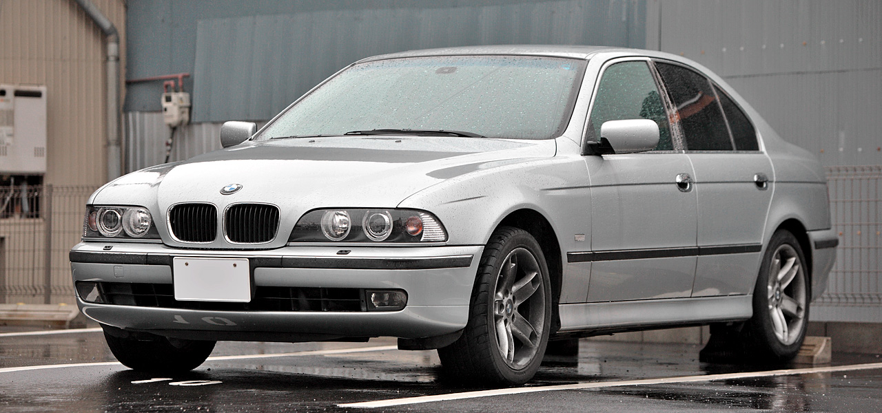 BMW 5 Series Sloon ( E39, 528i )